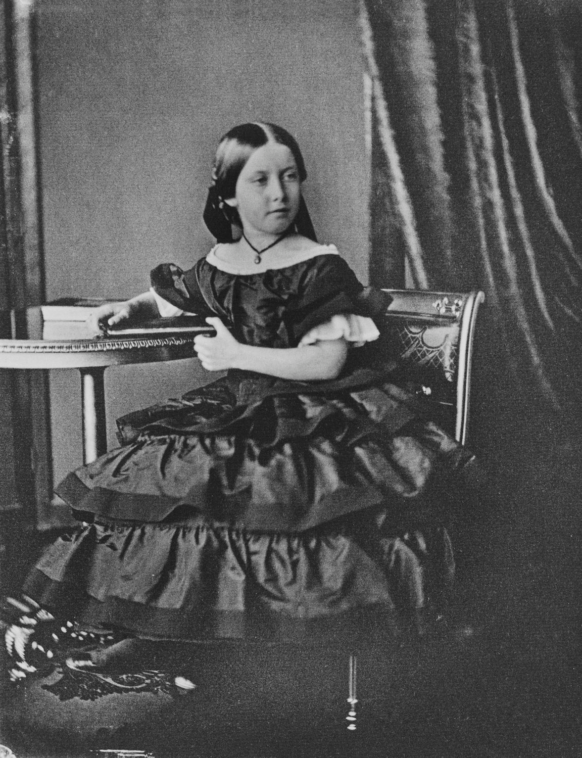 Photograph of Princess Helena, seated by a smal circular table on which there are two books, one of which the Princess holds. She faces three-quarters right and wears a short-sleeved dress, and a necklace. She wears her hair tied back. Full length portrait.